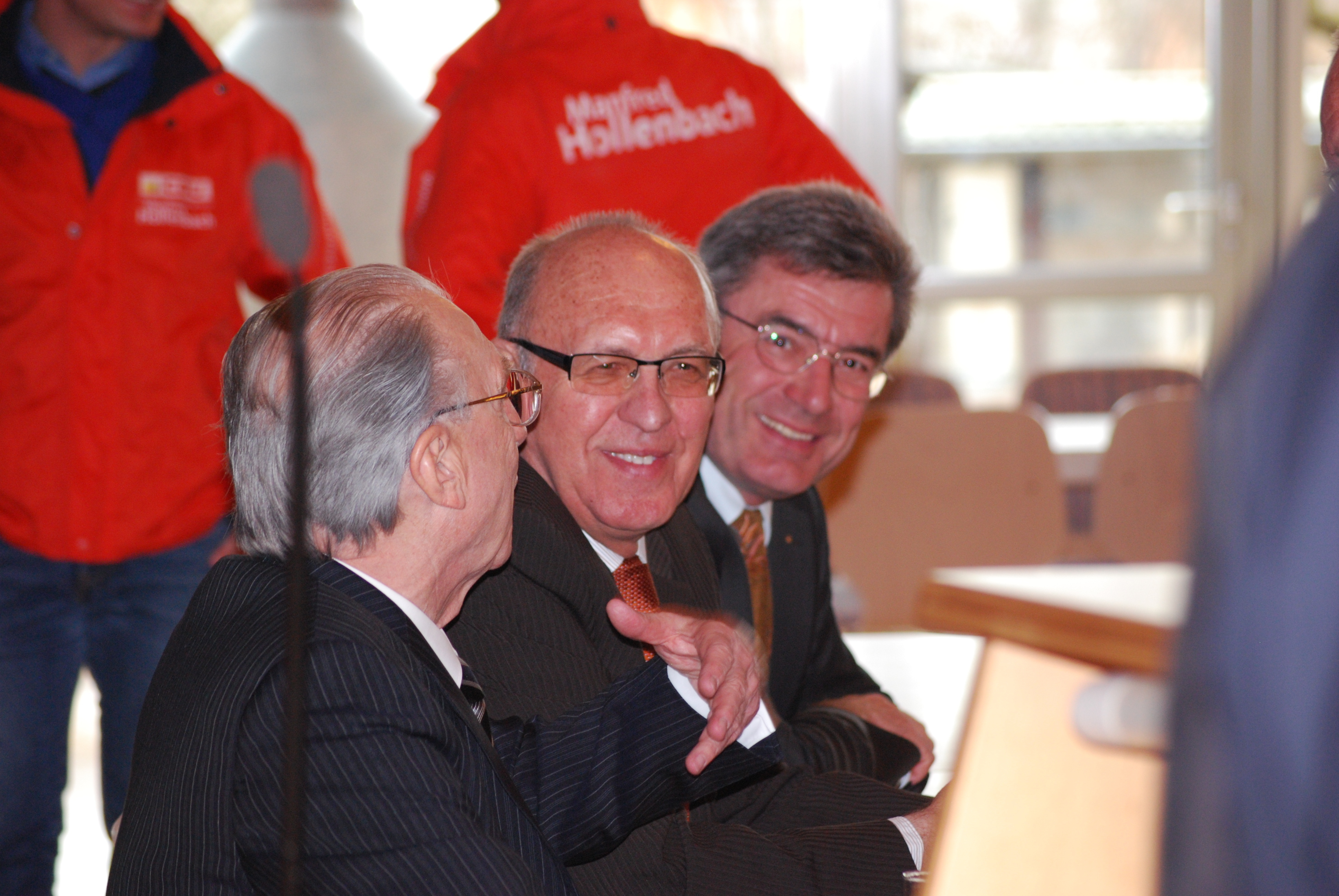 The German politicians Lothar Späth, Manfred Hollenbach and Albrecht Fischer (all CDU). Photo taken in Löchgau, 13th March 2011.